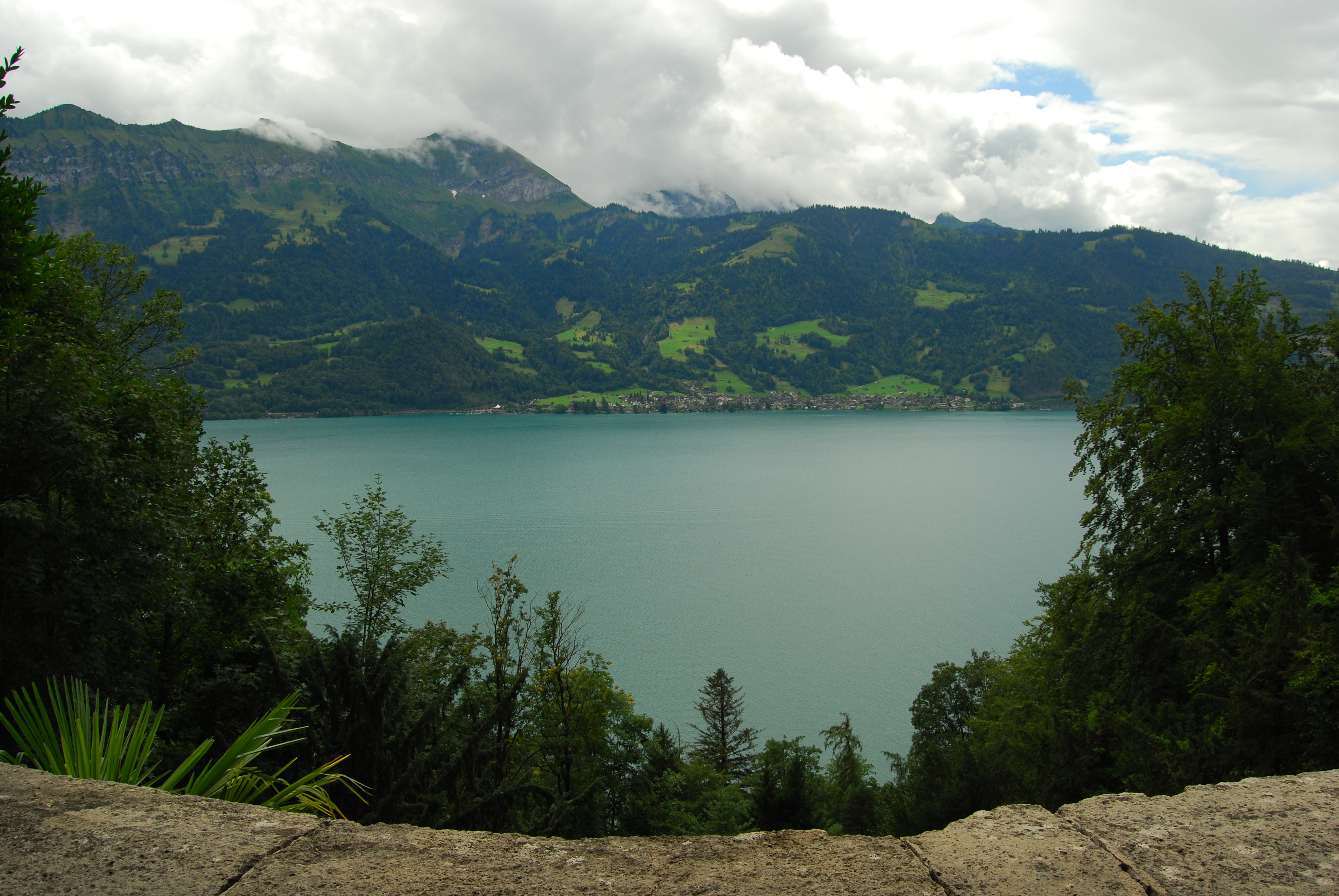 Few to Leissigen and Lake Thun form the entry of the Saint Beatus Caves, municipality of Beatenberg, canton of Bern, Switzerland